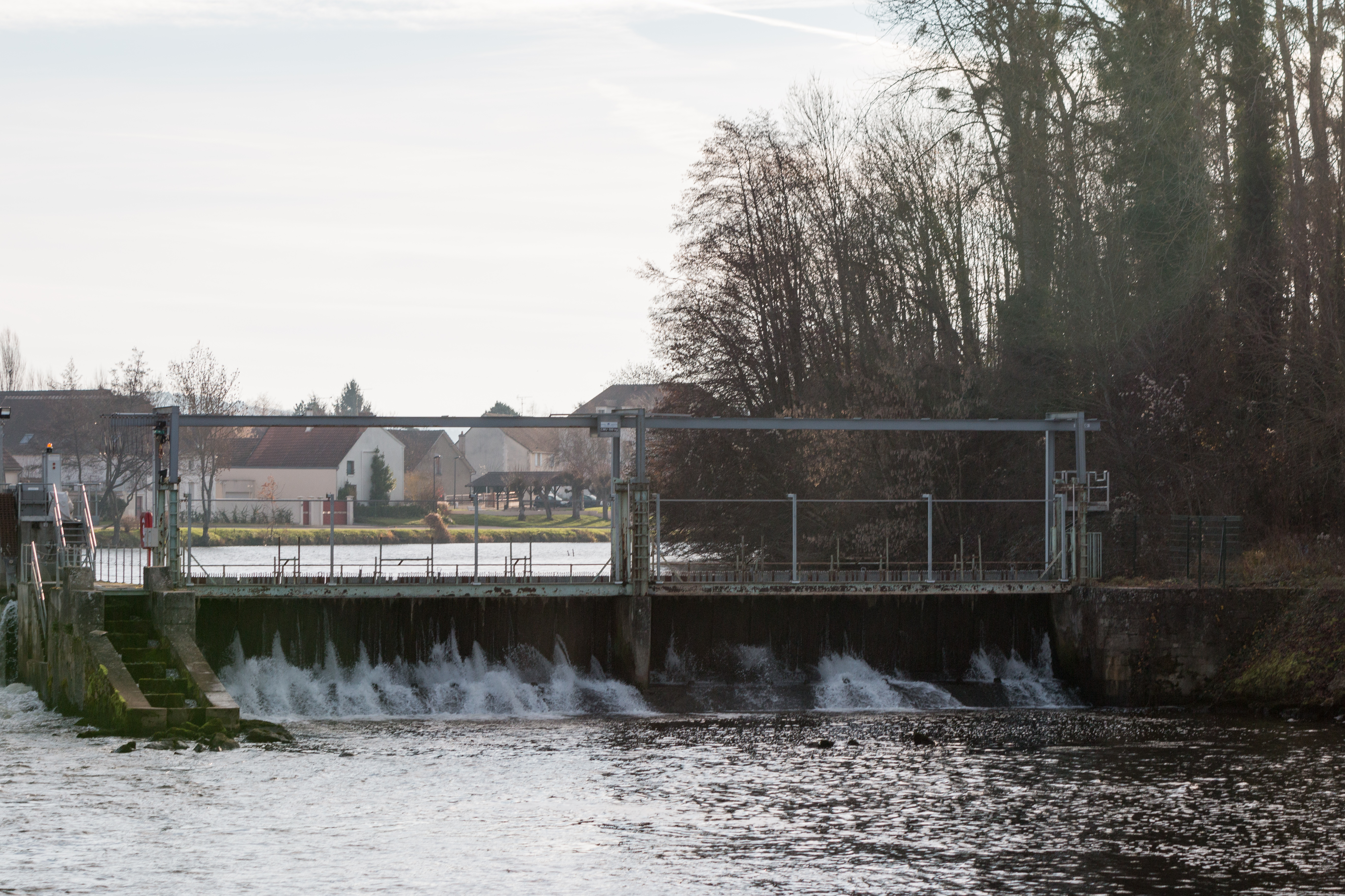 This dam on the Yonne river downstream of Gurgy ensures impoundment in the Diversion of the Yonne river of which regulates the course.